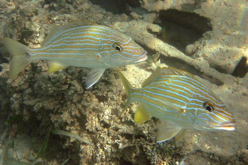 French Grunts (Haemulon flavolineatum). Taken in the US Virgin Islands.